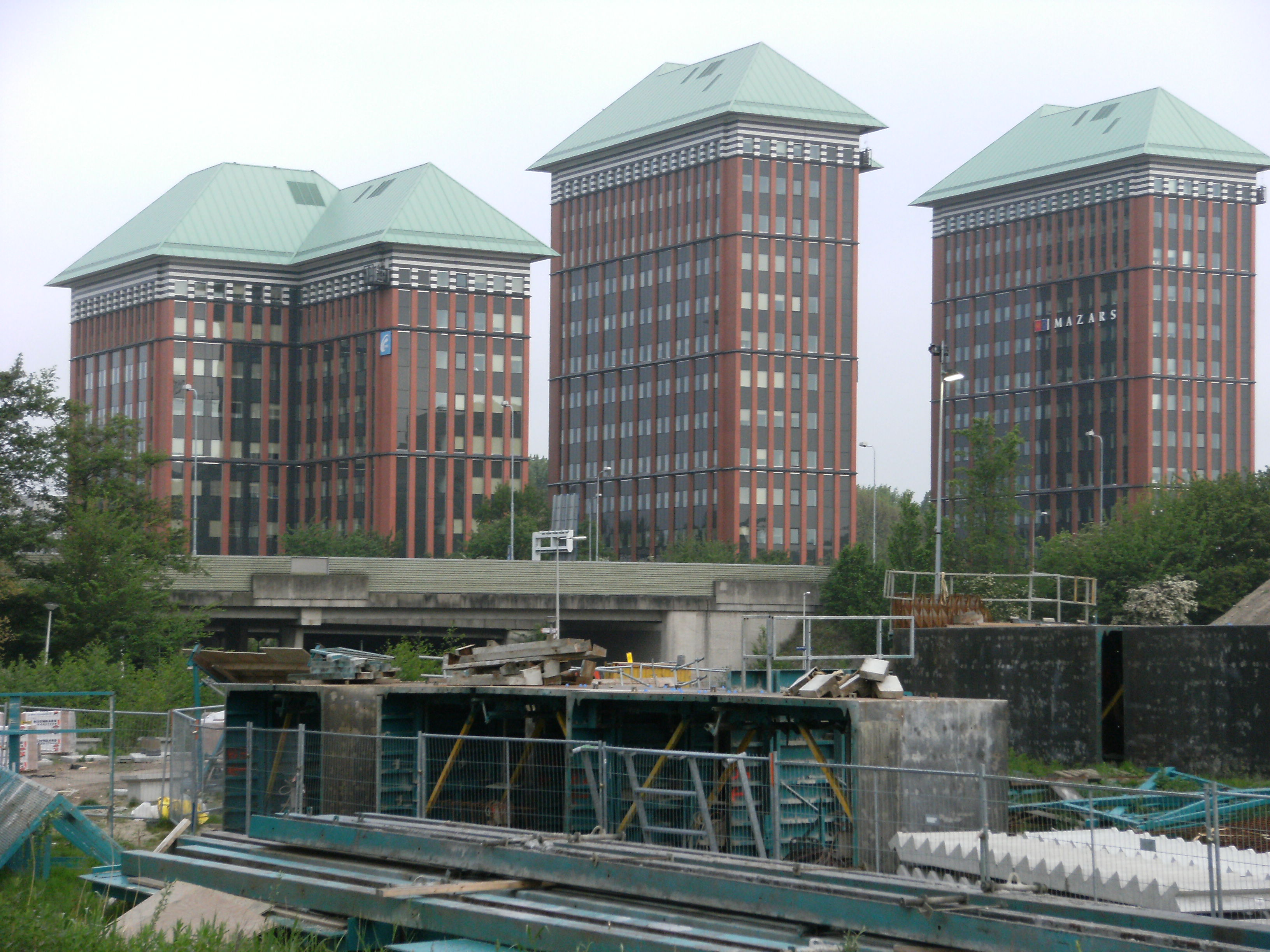 Queens Towers, housing UWV Building in Slotervaart Amsterdam, by C.J.M Weeber of Architecten Cie. In front contruction site of Andreas Ensemble.